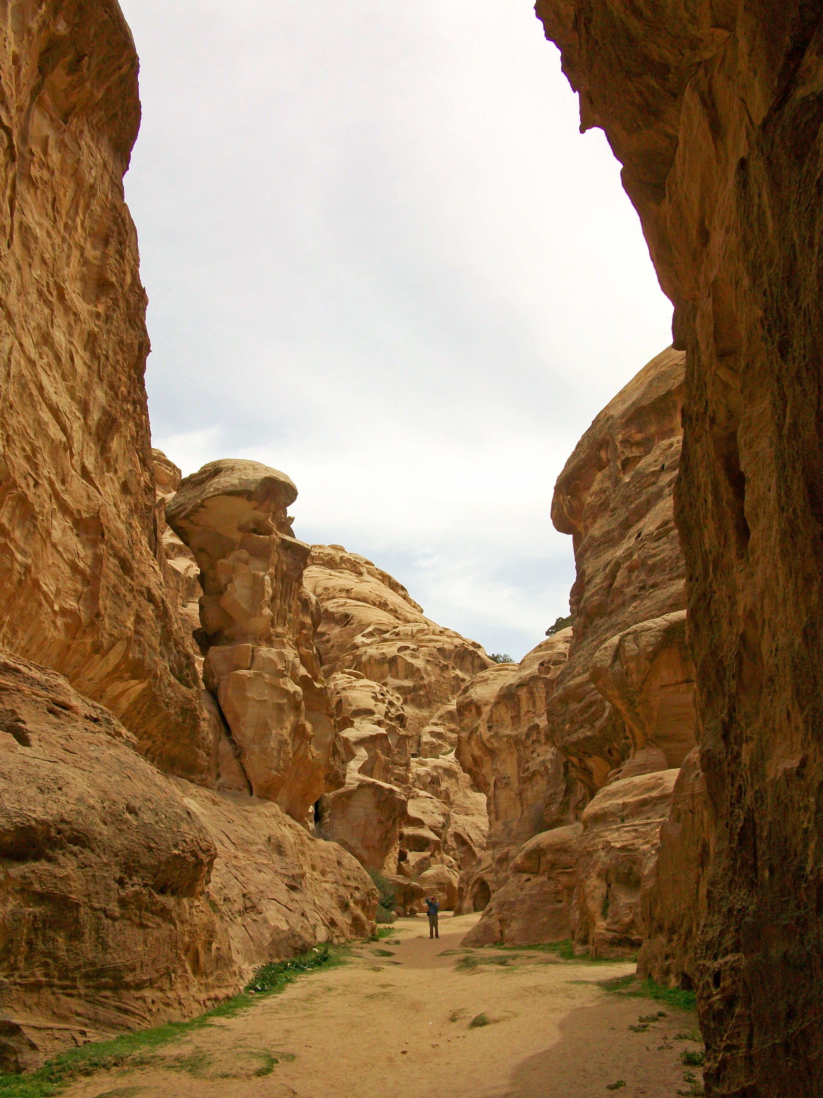 Siiq al-bariid ("Cold Canyon"), the entrance to Little Petra in Jordan.